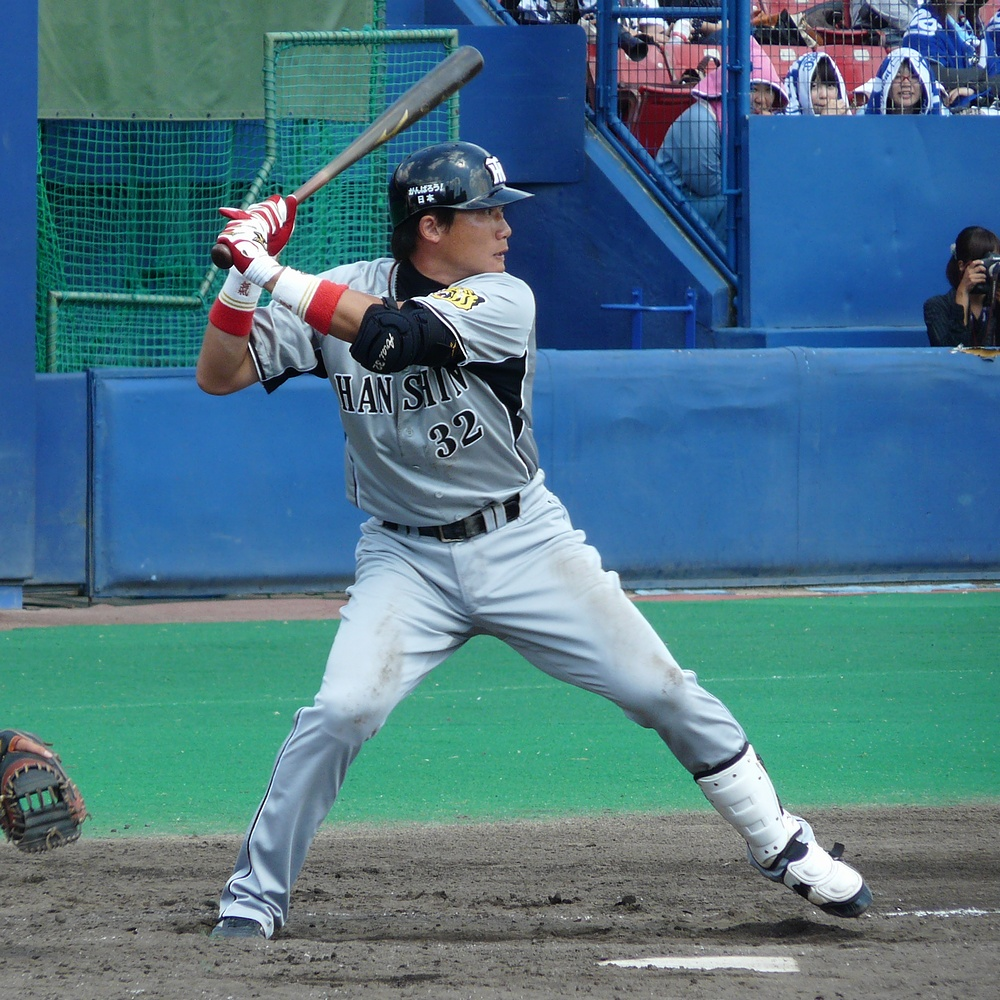 Ryota Arai, infielder of the Hanshin Tigers, at Nagoya Baseball Stadium.